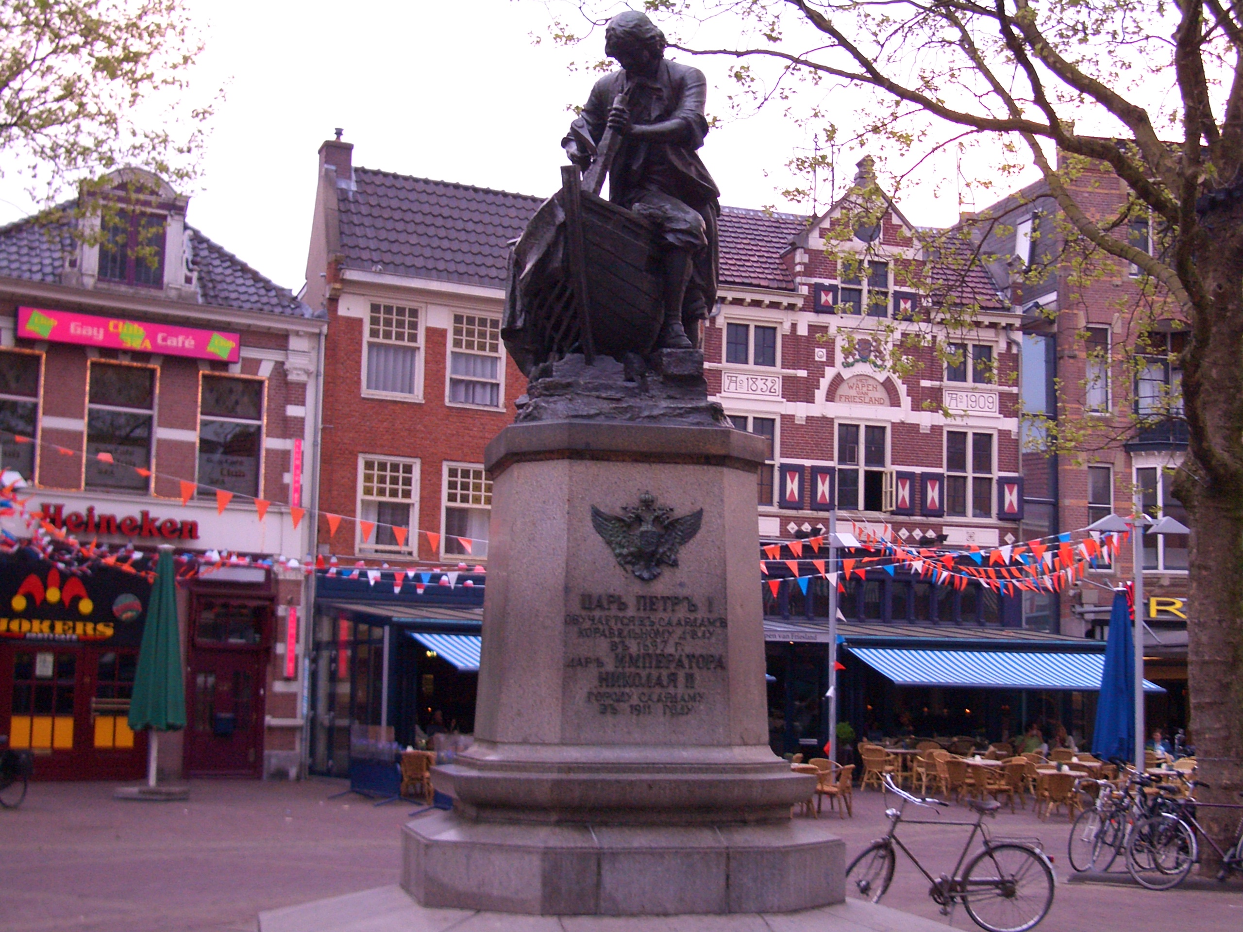 Monument to Peter I on a square a block or so from his old house